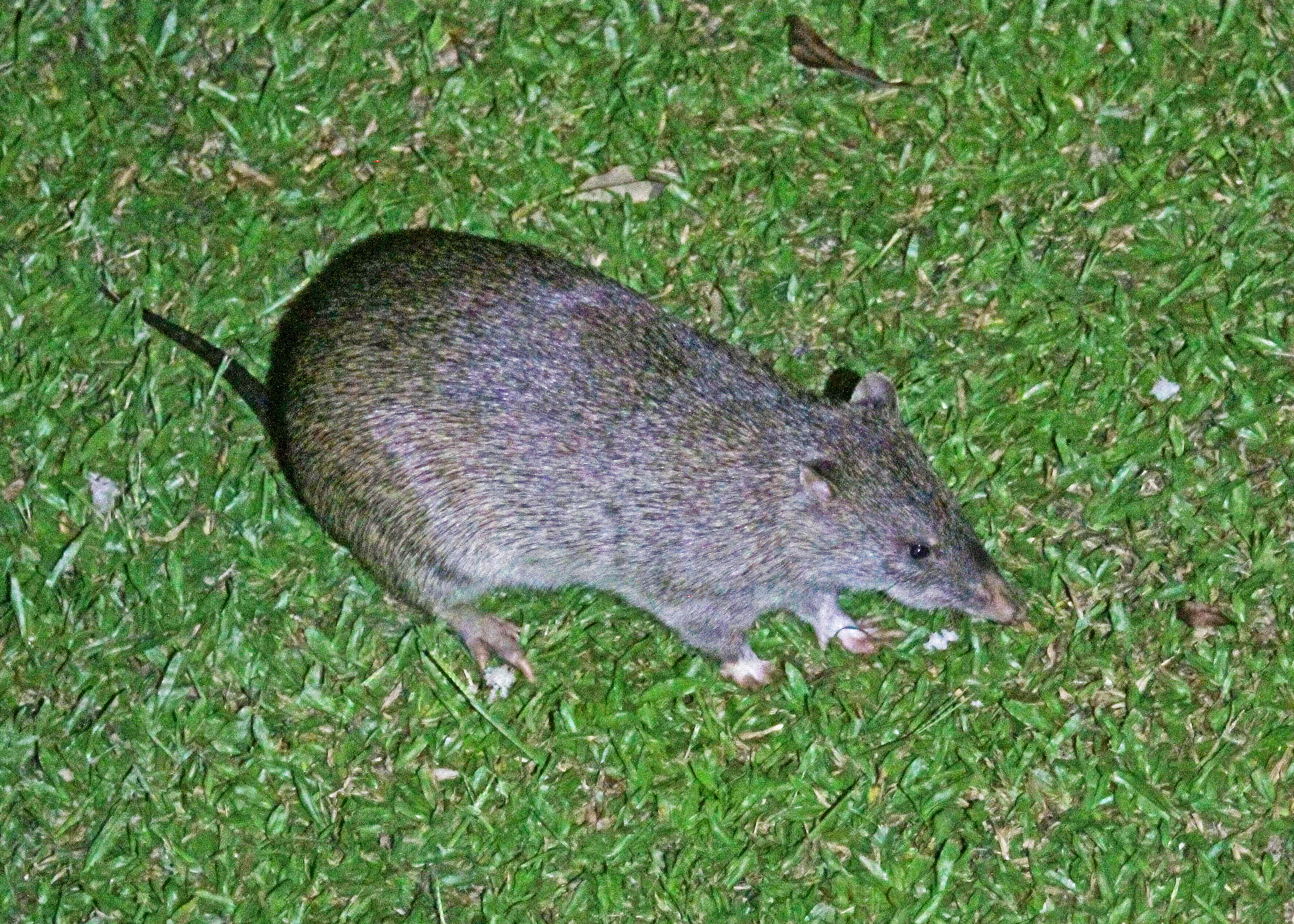 photo of Northern Brown Bandicoot